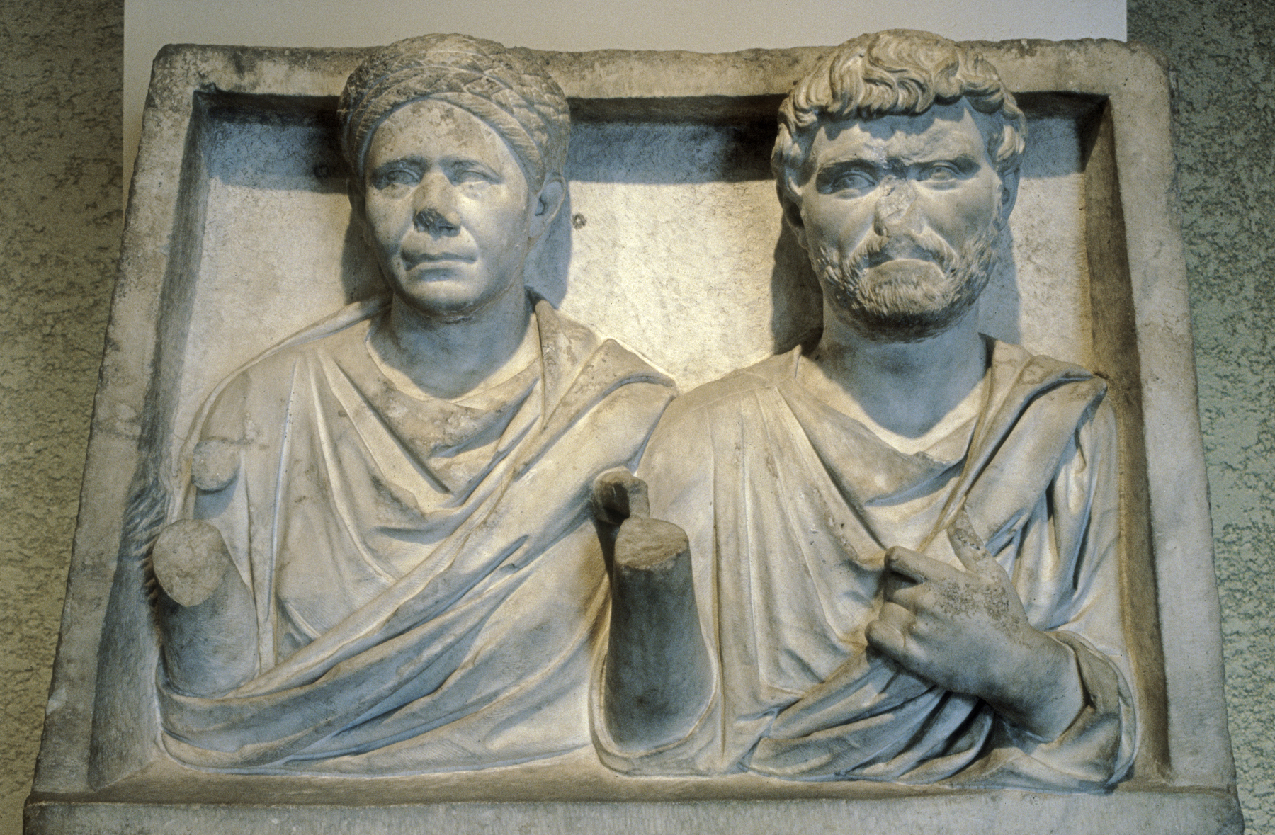 This type of funerary monument, a framed grave relief, was most common during the era of the Roman Republic (509-27 BC). The realistic treatment of the eyes, the woman's hairstyle, with her long braids wound around her head, and the man's short beard indicate that this is a later example from the Hadrianic (AD 117-138) or Antonine (AD 138-192) period.